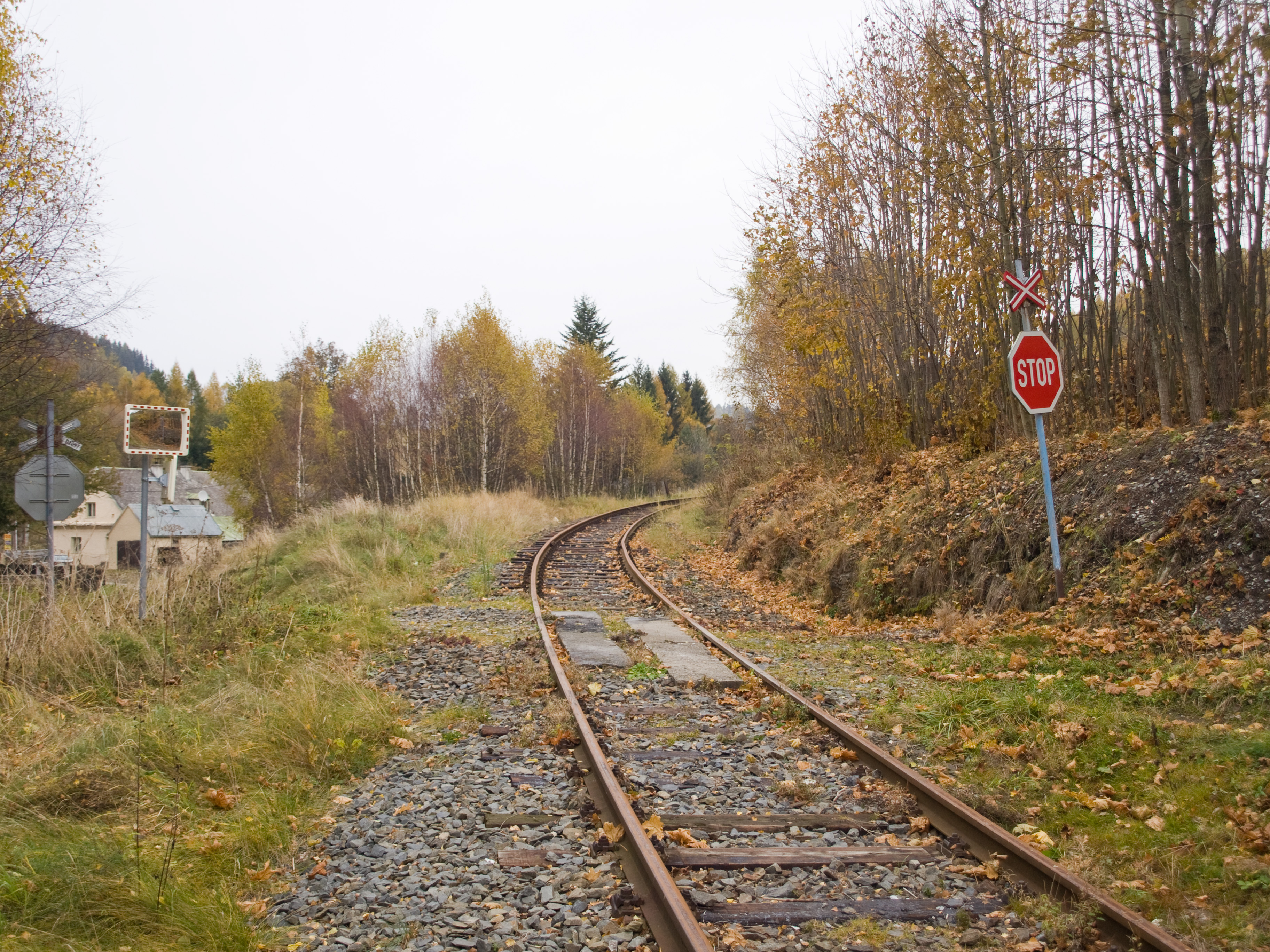 Track segment between Malá Morávka and Rudná pod Pradědem zastávka (see GPS) towards Rudná, railway track n. 312 Bruntál – Světlá Hora – Malá Morávka